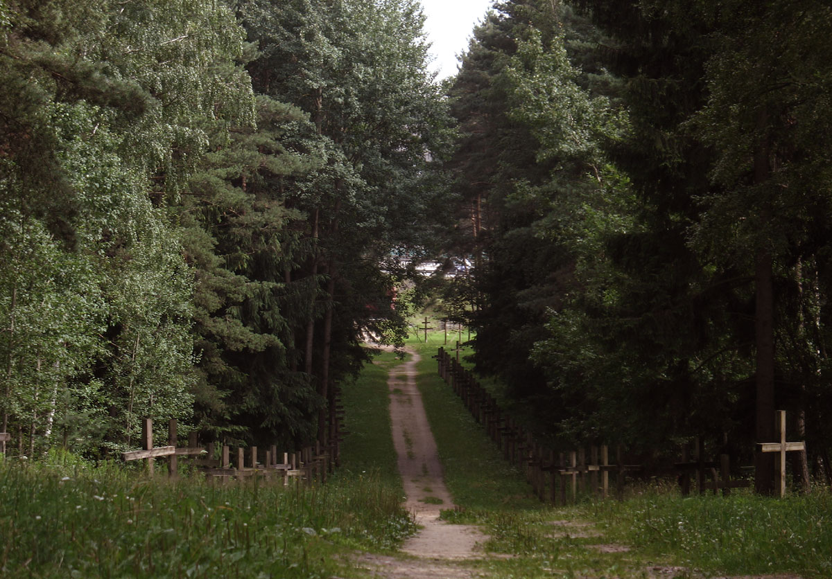 Kurapaty near Minsk is the place where mass executions of Belarusian civilians were carried out during the Stalin regime (1937 - 1941)